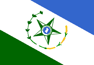 Flag of Santa Terezinha de Itaipu, a municipality in the Brazilian state of Paraná